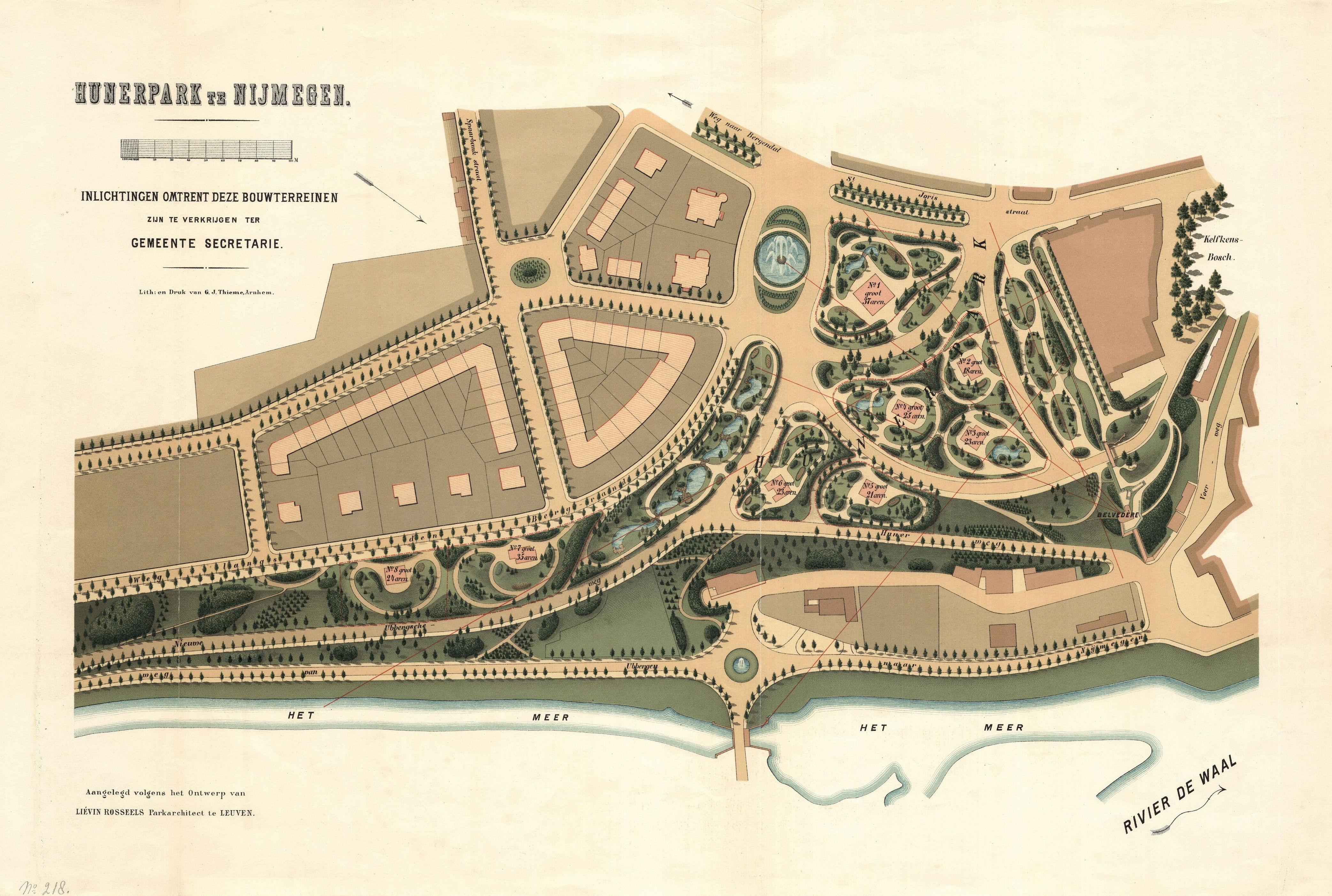 Map Hunnerpark Nijmegen 1885 Constructed according to the Design by Liévin Rosseels Parkarchitect in Leuven